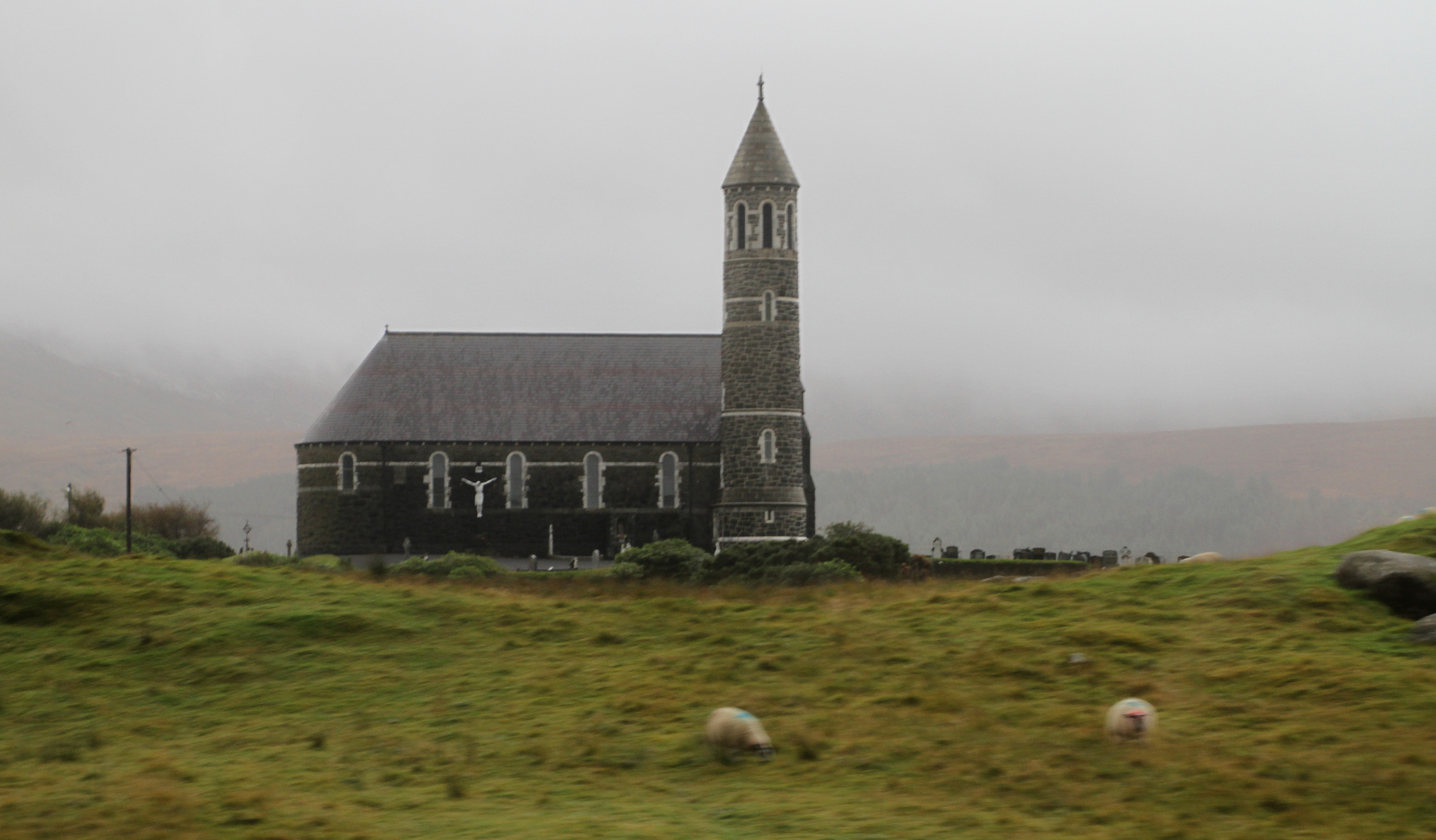 Dunlewey, Church of the Sacred Heart